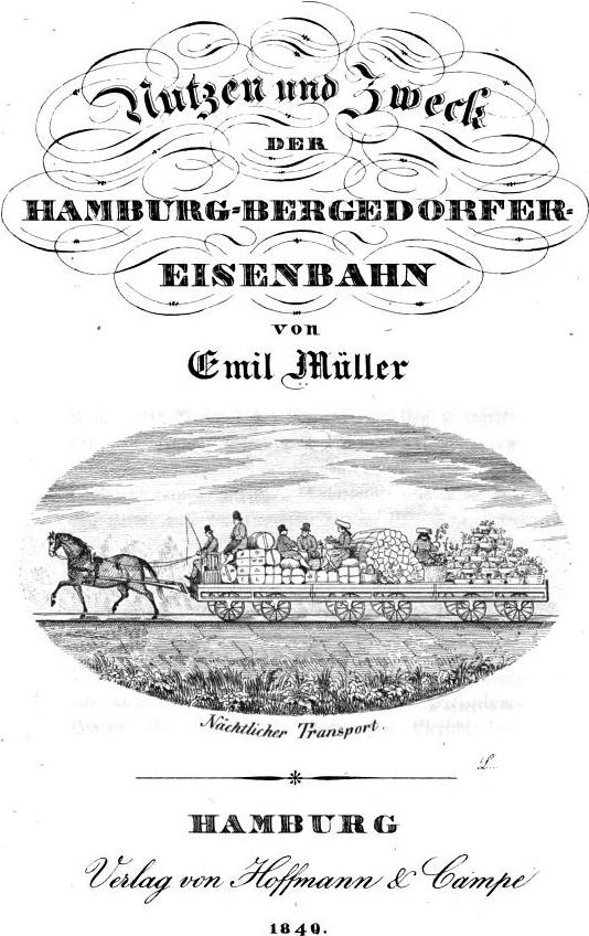 Title page of Nutzen und Zweck der Hamburg-Bergedorfer-Eisenbahn. Hamburg: Hoffmann & Campe 1840